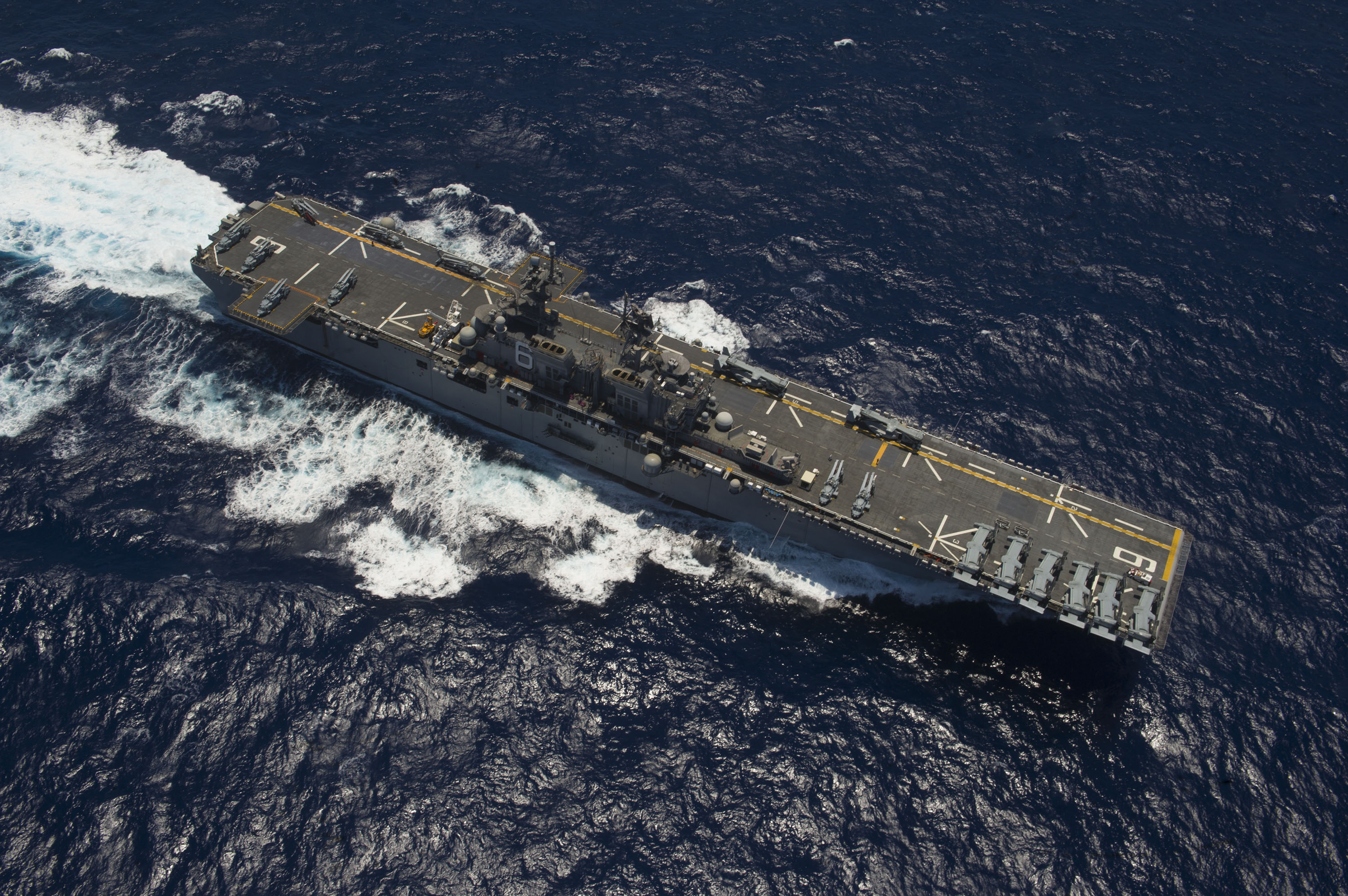 The amphibious assault ship USS America (LHA-6) performs flight operations while underway to Rim of the Pacific 2016. Twenty-six nations, more than 40 ships and submarines, more than 200 aircraft and 25,000 personnel are participating in RIMPAC from June 30 to Aug. 4, in and around the Hawaiian Islands and Southern California. The world's largest international maritime exercise, RIMPAC provides a unique training opportunity that helps participants foster and sustain the cooperative relationships that are critical to ensuring the safety of sea lanes and security on the world's oceans. RIMPAC 2016 is the 25th exercise in the series that began in 1971.